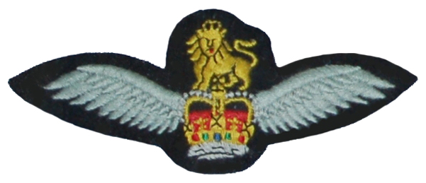 Photograph of British Army Air Corps pilot's brevet (wings). Queens's Crown.